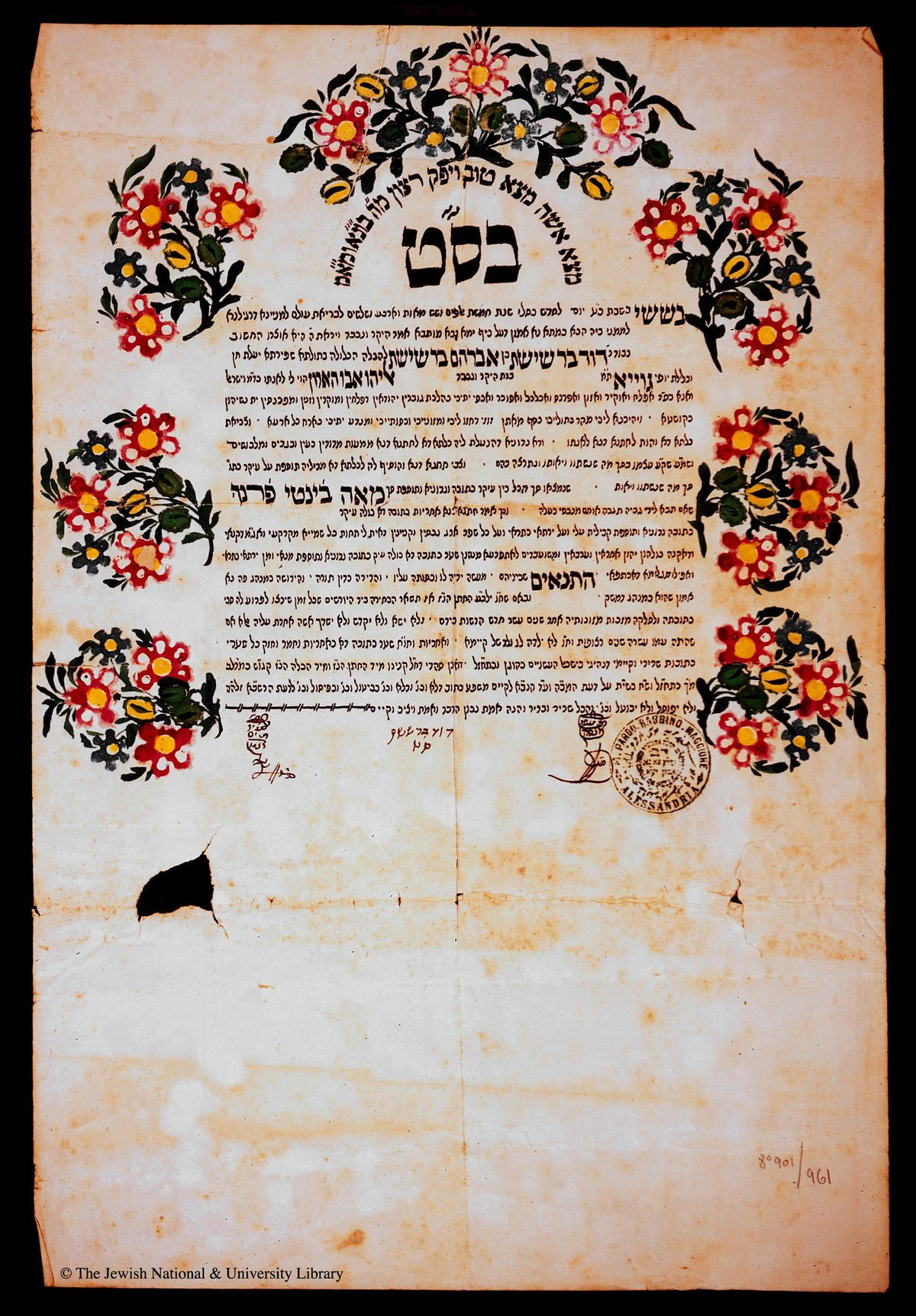 Ketubah from Egypt